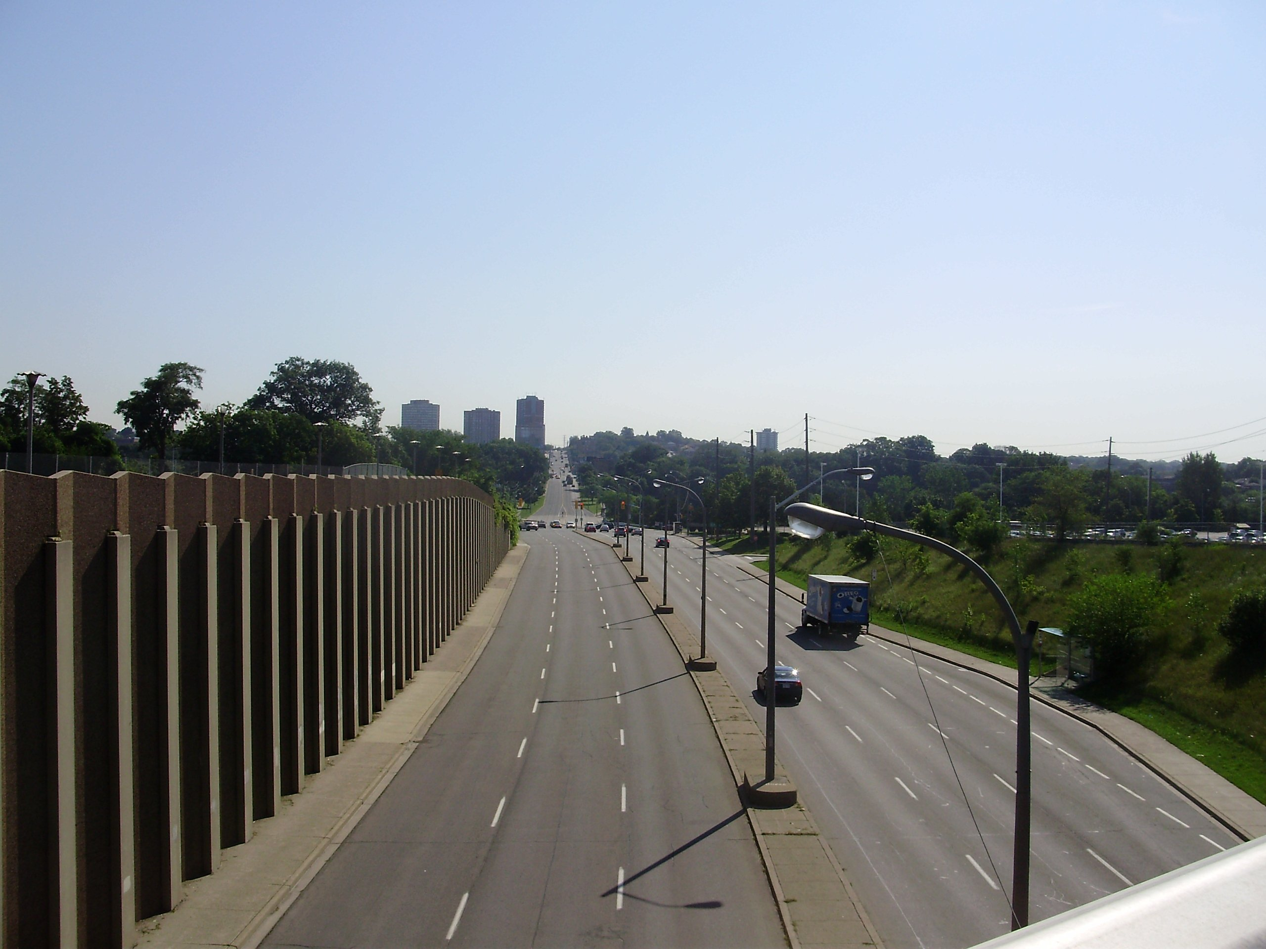 An elevated view of Eglinton Avenue West in Toronto, Ontario, Canada, looking east toward its intersection with Black Creek Drive at the traffic lights. The Black Creek runs through the wooded area, with the city of York beyond. Had the municipal expressway plans of the 1960s come to fruition, the photographed area would have been the intersection of the Richview Expressway, Crosstown Expressway, and Highway 400 southern extension.